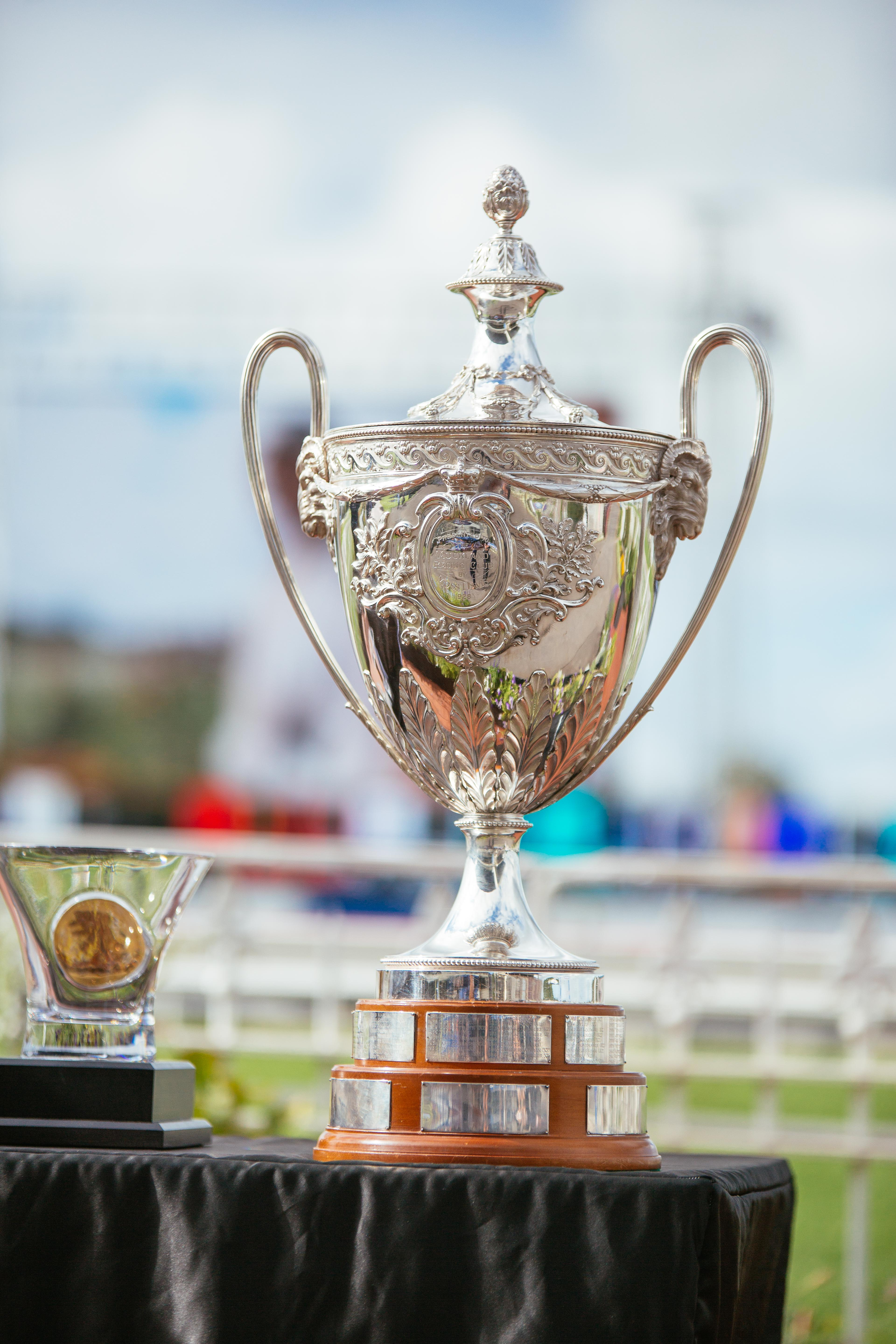 The trophy that Auckland Cup Week is named after